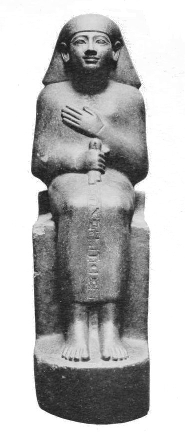 Sitting statue of Menkheperraseneb, Second Priest of Amun and minister under Thutmose III. According to Richard Fazzini [Fazzini, Richard A., A Statue of a High Priest Menkheperreseneb in The Brooklyn Museum, in Studies in honor of William Kelly Simpson, vol. 1 (1996) pp 209-225] the statue could refers to an early stage of the career of either the two High Priest of Amun Menkheperraseneb who lived in the same period and were buried in TT86 and TT112. On the other hand, this source of the British Museum suggests that the individual here depicted is a third Menkheperraseneb, unrelated to the two cited above. Black granite, possibly from Karnak, 18th dynasty, New Kingdom. London, British Museum EA708.